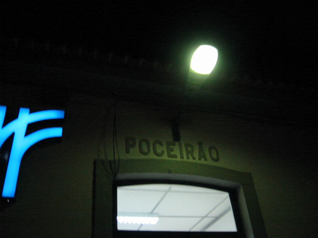 Railway station of Poceirão at night